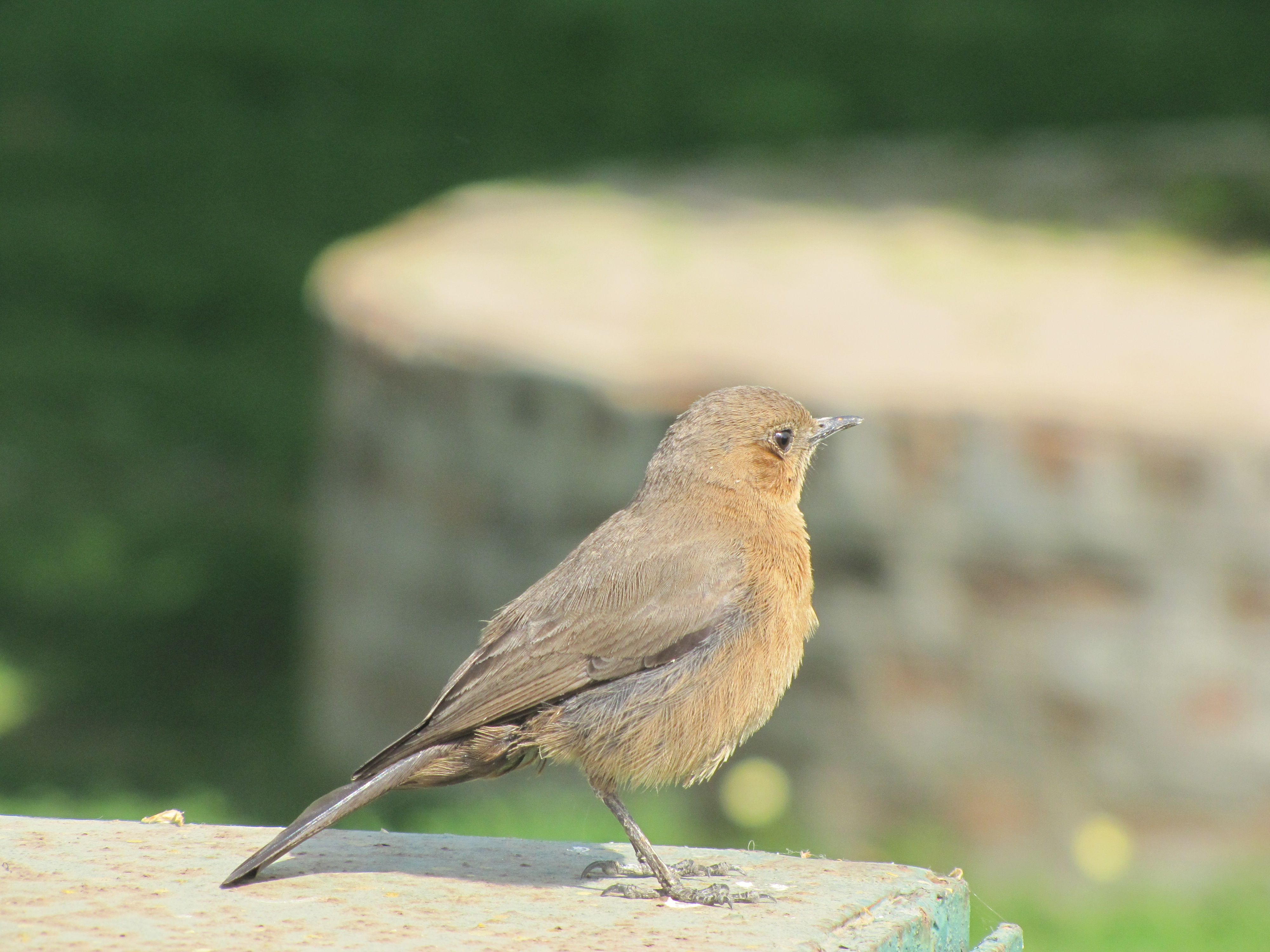 Brown Rock Chat - Cercomela fusca